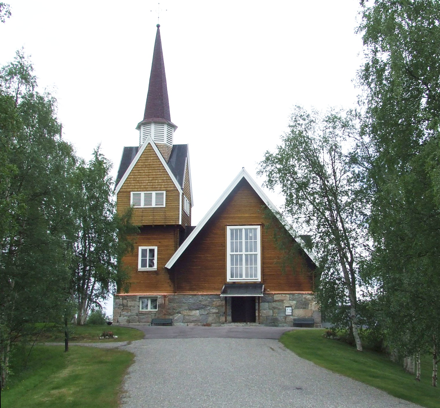 Church of Karesuando in Sweden.